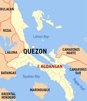 Map of Quezon showing the location of Agdangan